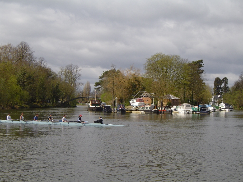 D'Oyly Carte Island in the River Thames Weybridge